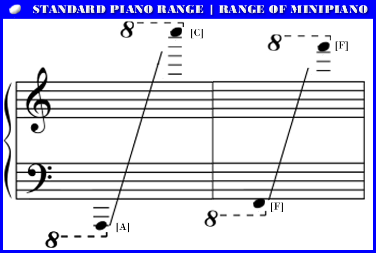 The differences in tessitura are clearly demonstrated by showing the complete range of a standard contemporary piano as they are generally made today and a minipiano, which has a considerably smaller range.